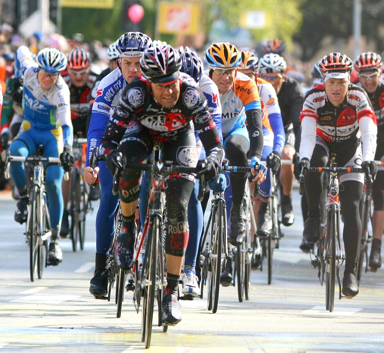 José Enrique Gutiérrez leads the peloton in. Stage 2 finish in Santa Cruz, California